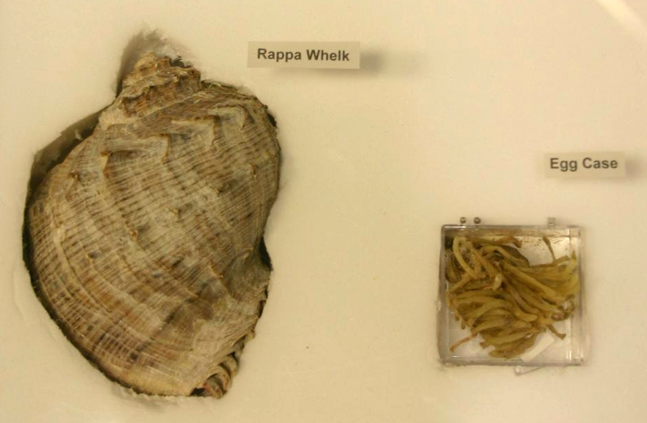 Rapana venosa and its egg case. Taken at the Virginia Living Museum Chesapeake Bay Discovery Center.